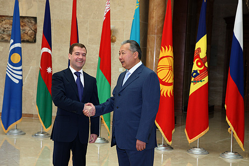 BISHKEK. With President of Kyrgyzstan Kurmanbek Bakiev before the start of the summit of the CIS Council of Heads of State.